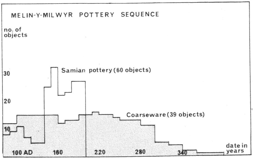 own diagram made in 1970 of Melin-y-Milwyr pottery